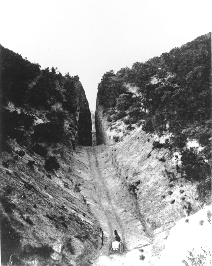 Beale's Cut at Fremont's Pass in 1872, improving the El Camino Viejo route by cutting through the northeastern Santa Susana Mountains, in Southern California. Replaced later by the Newhall Tunnel (1910), and Newhall Pass interchange (1970s) in the northernmost San Fernando Valley. Note: Beale's Cut was not actually part of the 1920s Ridge Route, and was just to the south.